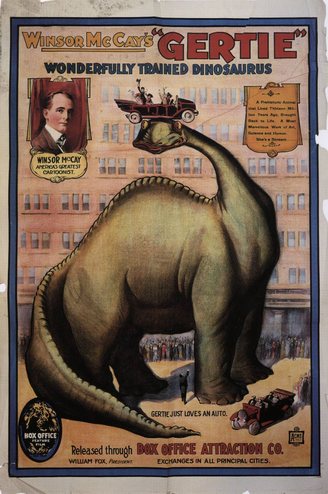 Advertising poster for Winsor McCay's film Gertie the Dinosaur